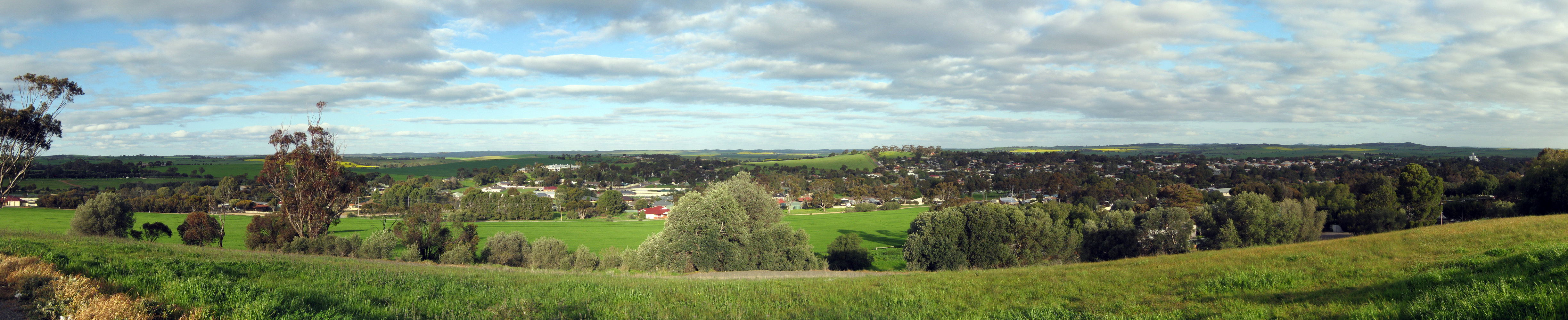 A view of Kapunda in South Australia at the entrance to the Barossa Valley. Historically, Kapunda was both a rural agricultural center and a mining town - the latter of which is celebrated through the Map Kernow, or "Big Miner" located on the outskirts of the town.